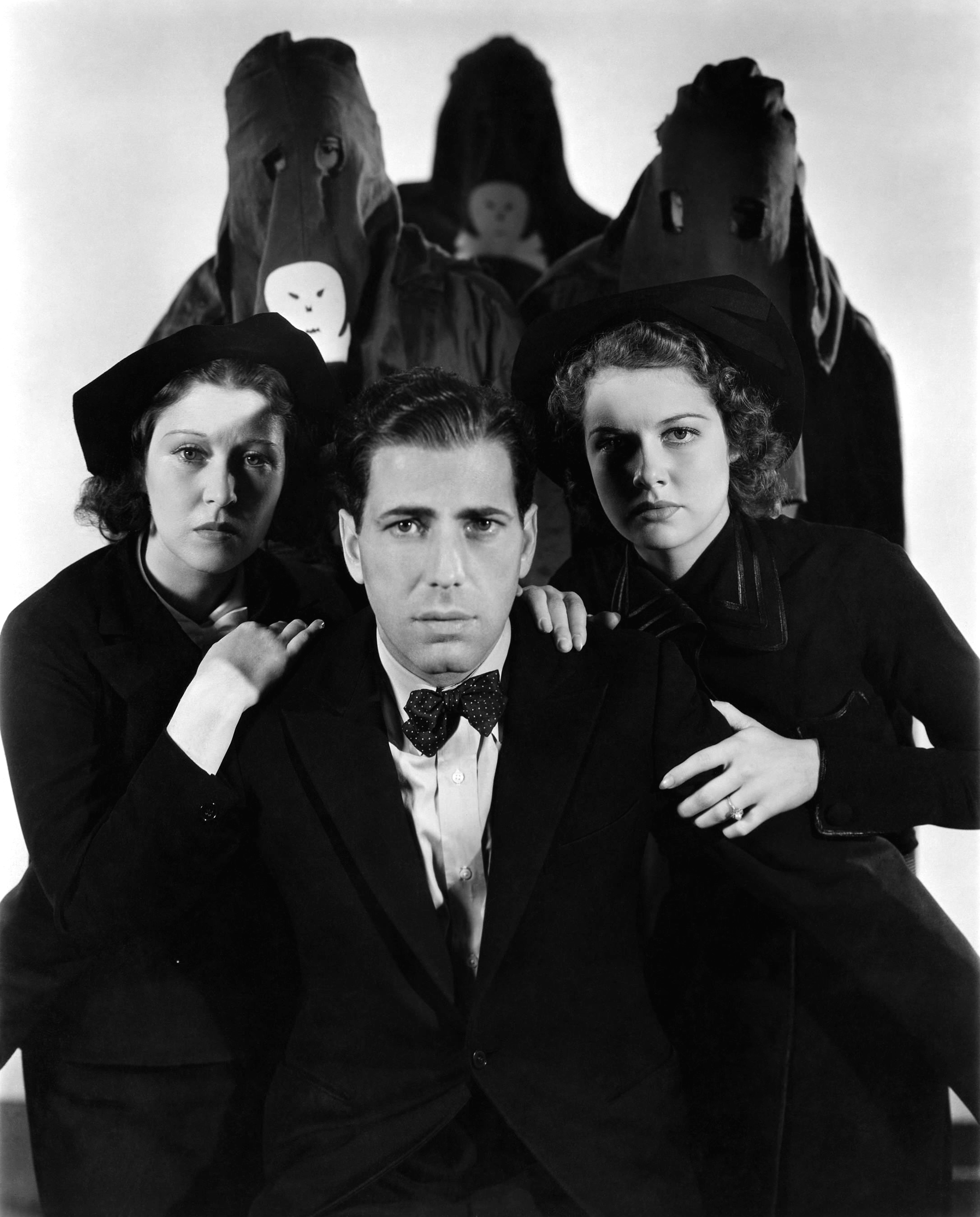 Left to right: Erin O'Brien-Moore, Humphrey Bogart, and Ann Sheridan in Black Legion (1937) - publicity still